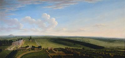 A panoramic bird's eye view of Bosworth Hall, Leicestershire, looking north-east (oil on canvas, 87.6 x 183.5 cm)